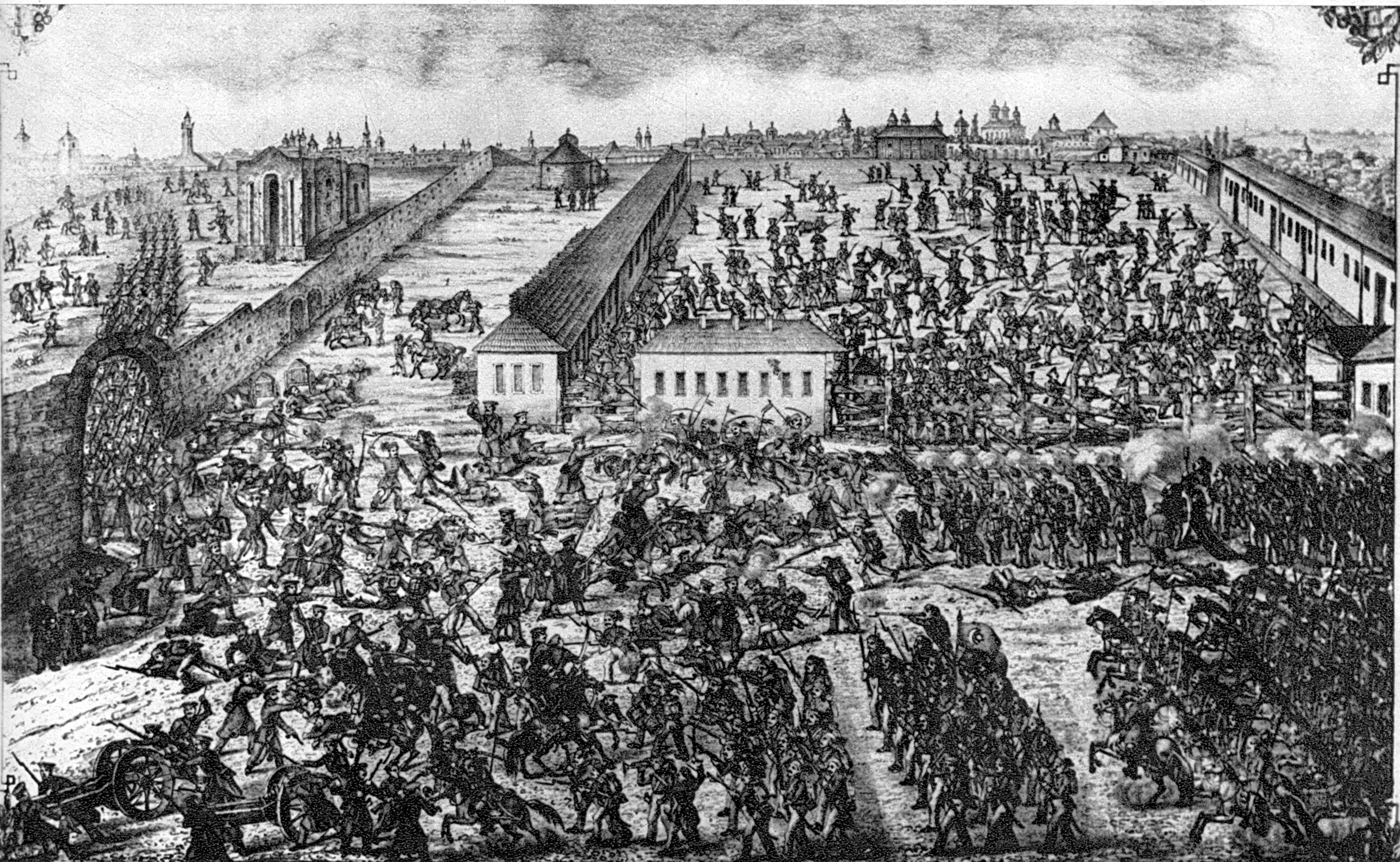 Battle on Dealul Spirii, Bucharest, 13 September 1848